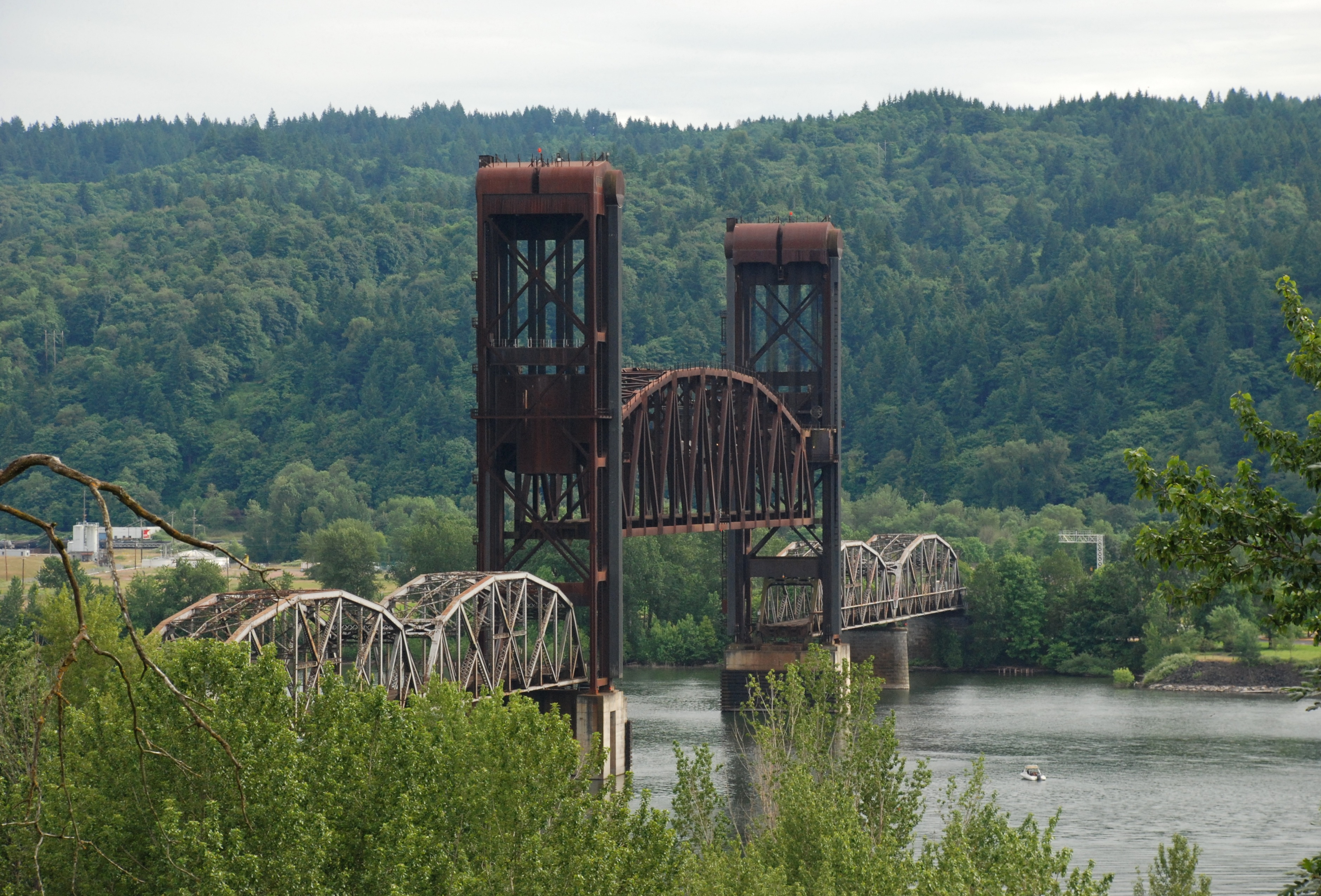 The Burlington Northern Railroad [now BNSF] Bridge 5.1, spanning the Willamette River, in Portland, Oregon, partially raised. The vertical-lift span, which replaced a 1908 swing span in 1989, is one of the highest such spans in the world, giving a clearance of 200 feet (61 m) below when fully raised. This view is from the Cathedral Park neighborhood (not the park of that name), in the southernmost part of St. Johns.